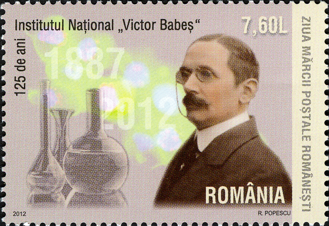 Stamps of Romania, 2012